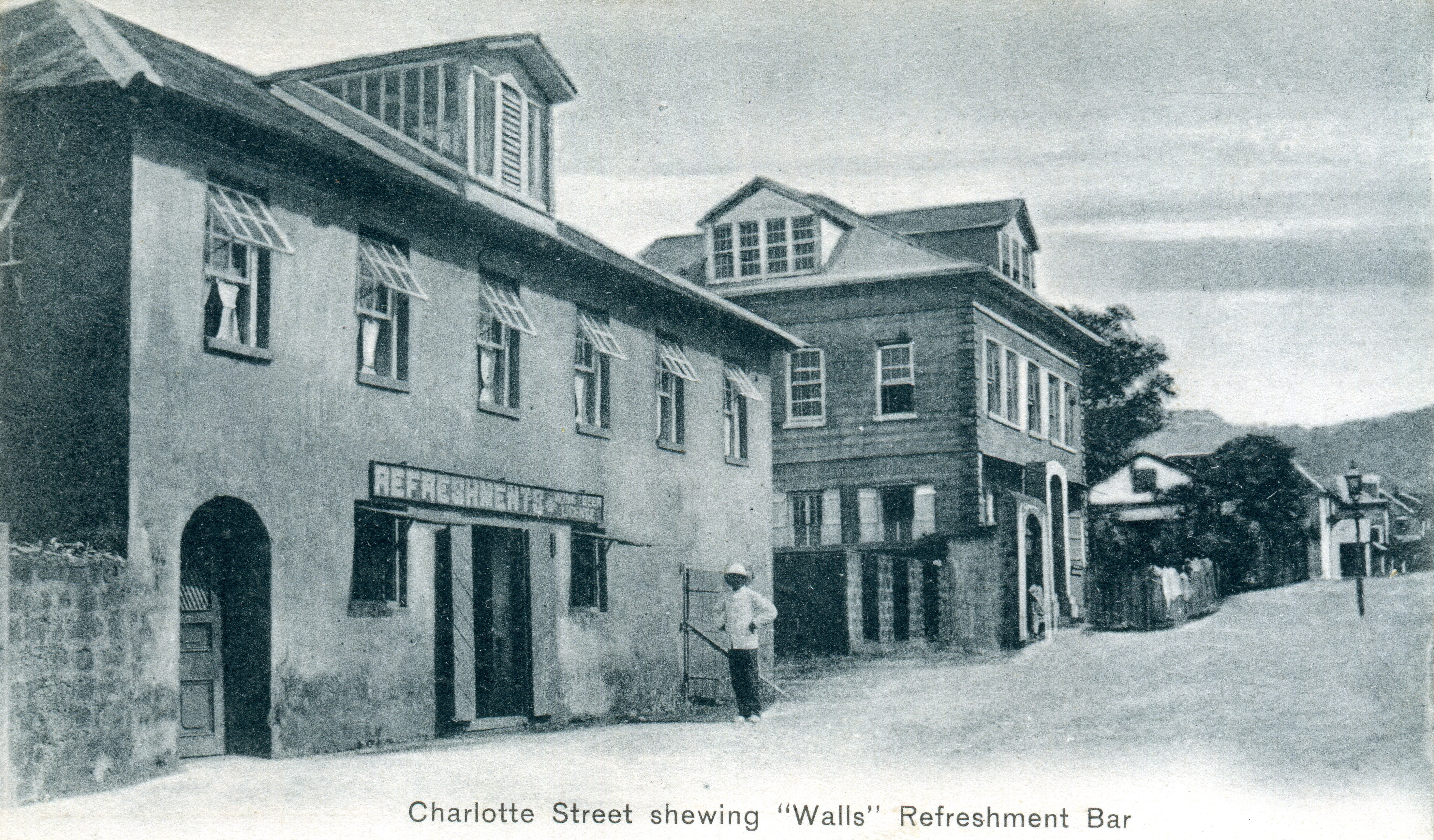 "Walls" Refreshment Bar on Charlotte Street in Freetown. From a postcard purchased in Freetown in 1905.